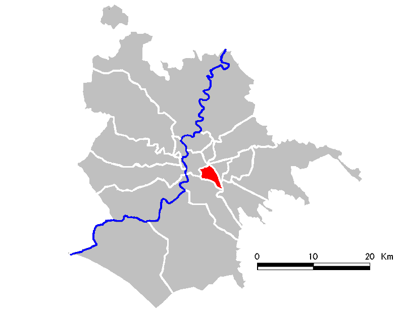 Locator maps of Rome